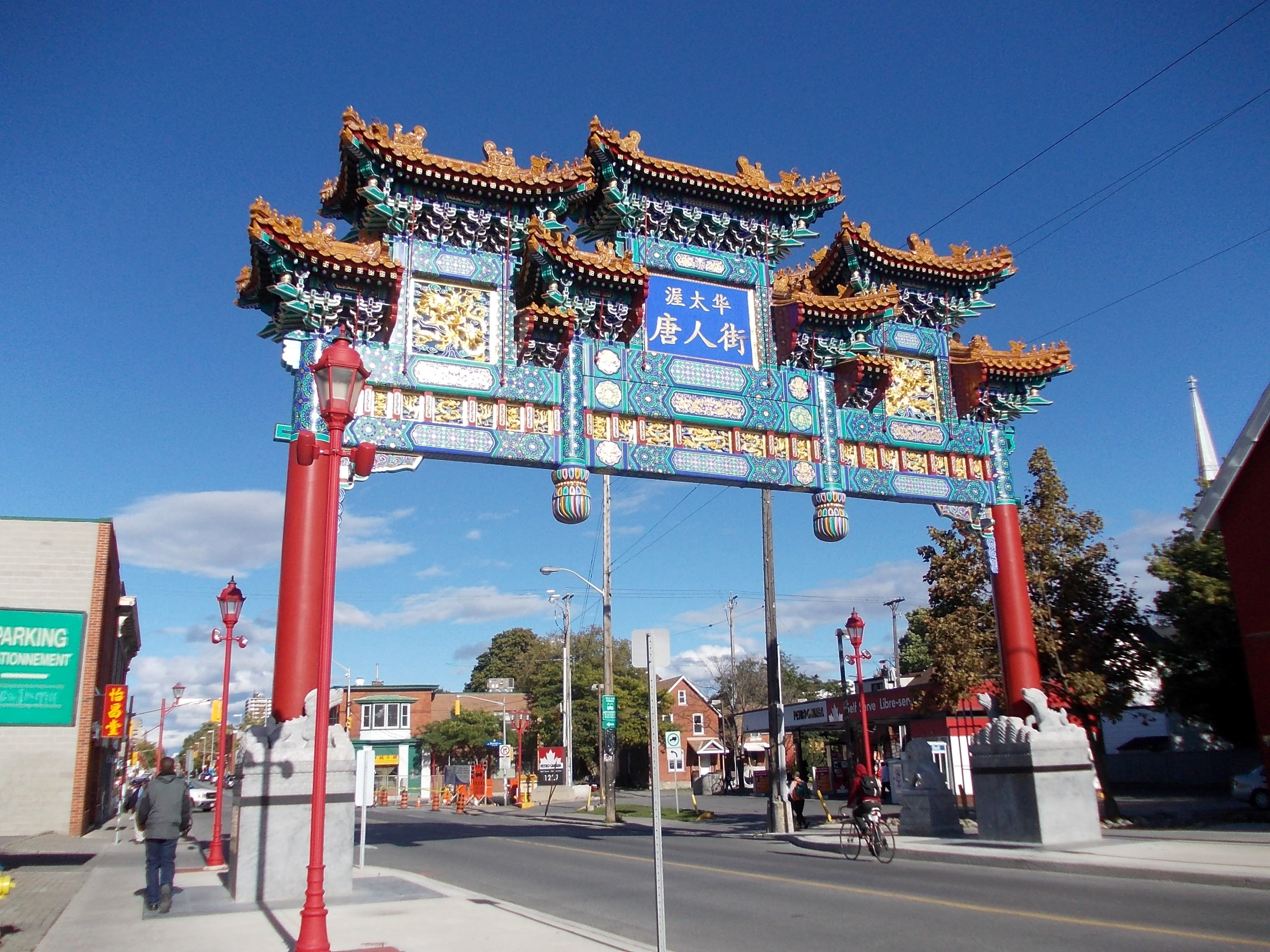 China Town in Ottawa